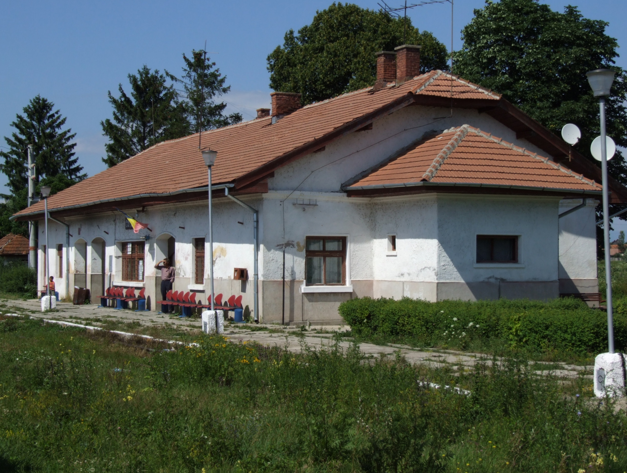 Train station in Caţa (Katzendorf, Kaca)